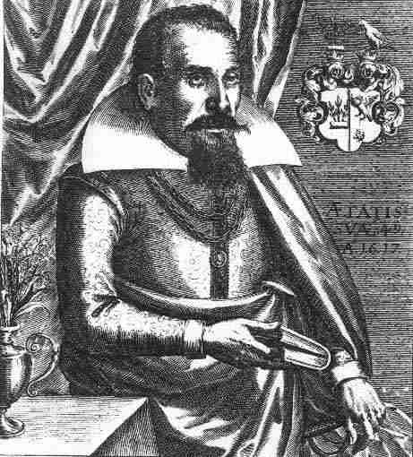 Copper engraving of Michael Maier at the age of 48, from the Atalanta fugiens; engraving from 1617 by Matthäus Merian.